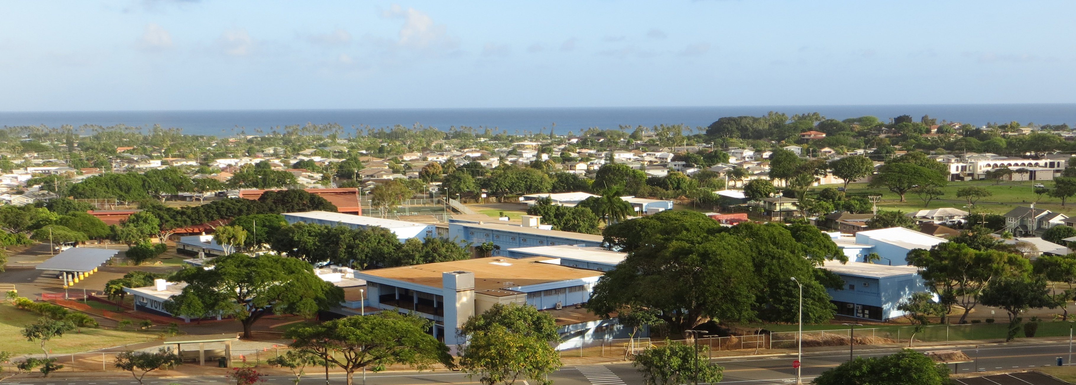 Campus of Kaimuki Middle School, Honolulu, HI, USA; used Saturdays for Rainbow Gakuen Japanese language school (ハワイレインボー学園 Hawai Rainbō Gakuen)